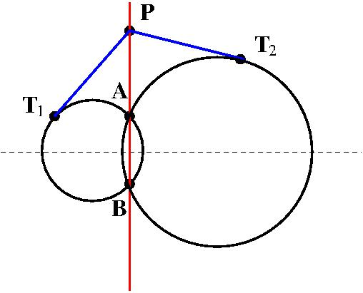 Construction of radical axis for two intersecting circles.